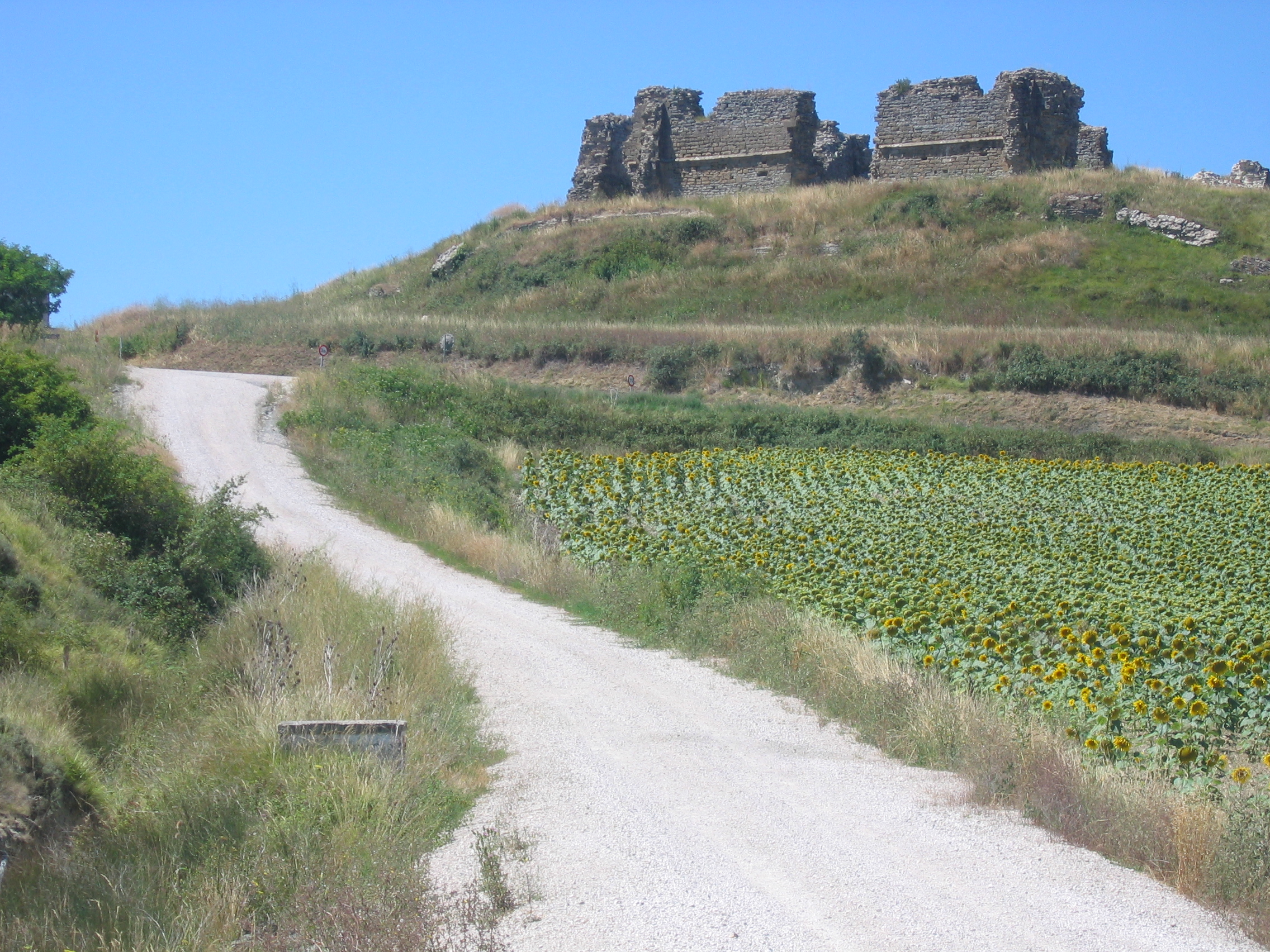 Castle in Tiebas